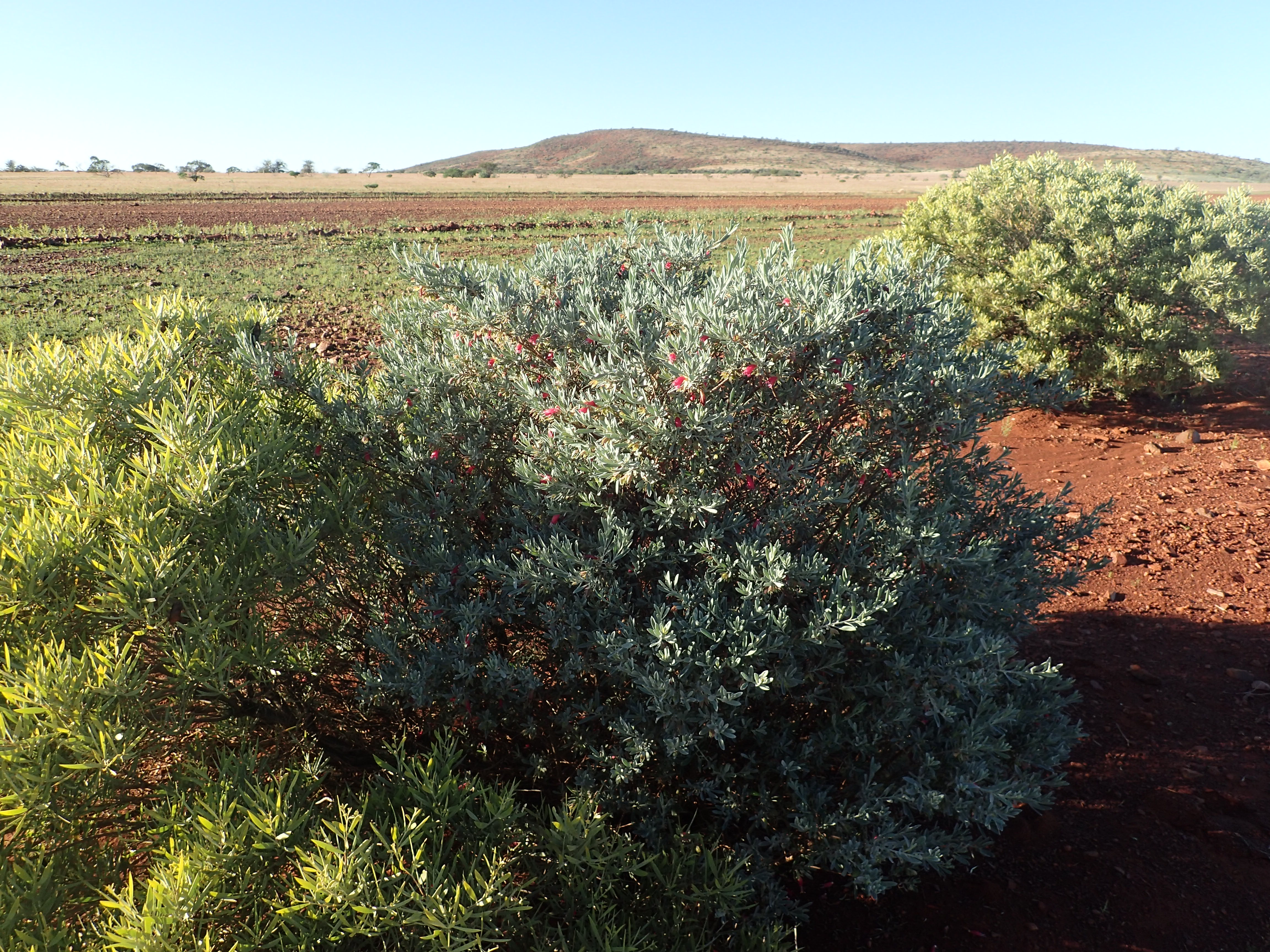 Eremophila latrobei latrobei growing 20 km east of Mount Augustus